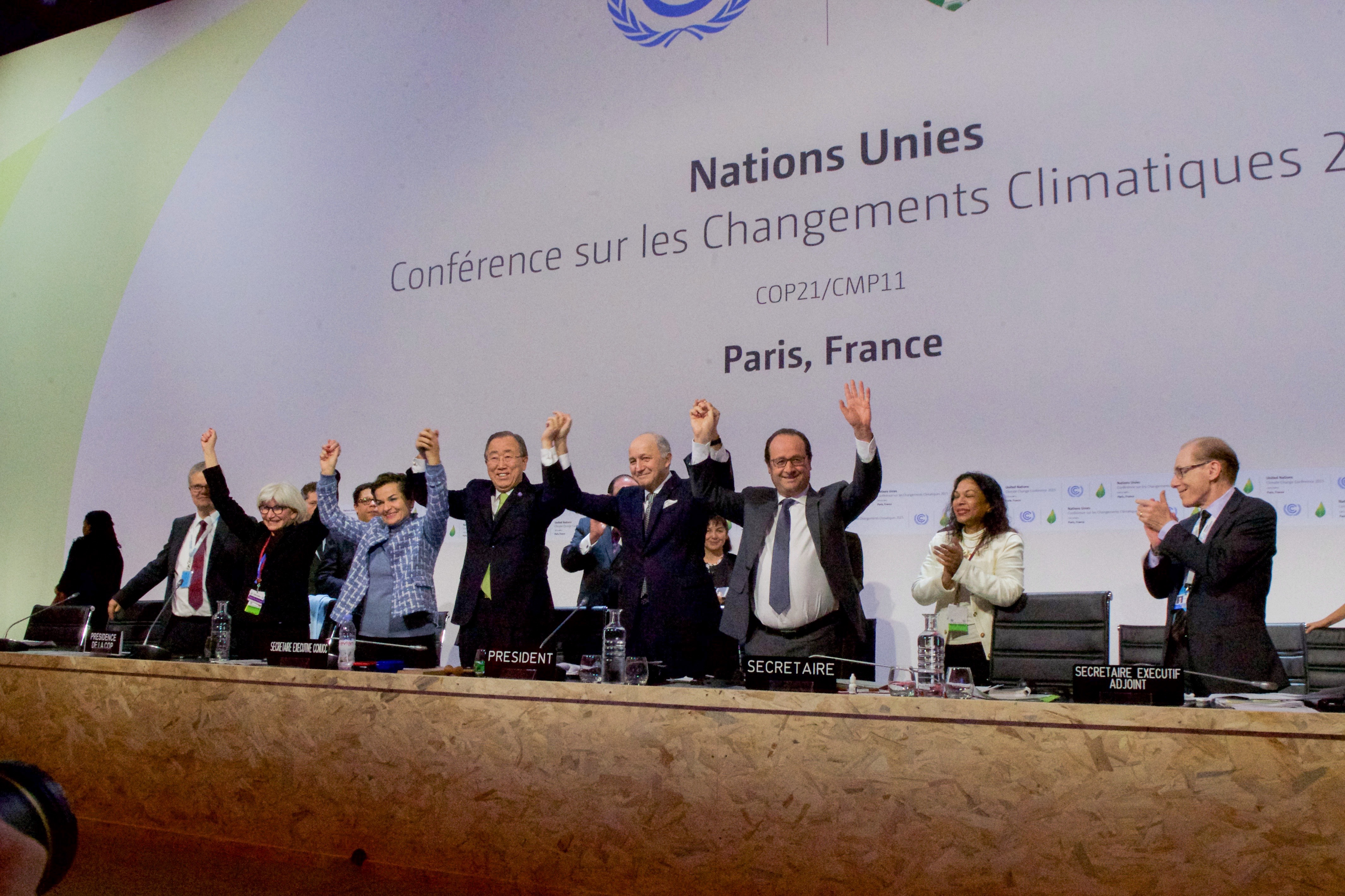 French Foreign Minister Laurent Fabius - President of the COP21 climate change conference - raises his hands along with United Nations Secretary-General Ban Ki-moon and French President Francois Hollande on 12 December 2015, after representatives of 196 countries approved a sweeping environmental agreement during a multinational meeting at LeBourget Airport in Paris, France.